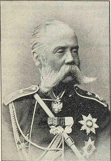 General of Infantry, Alexander Barclay de Tolly-Veimarn.